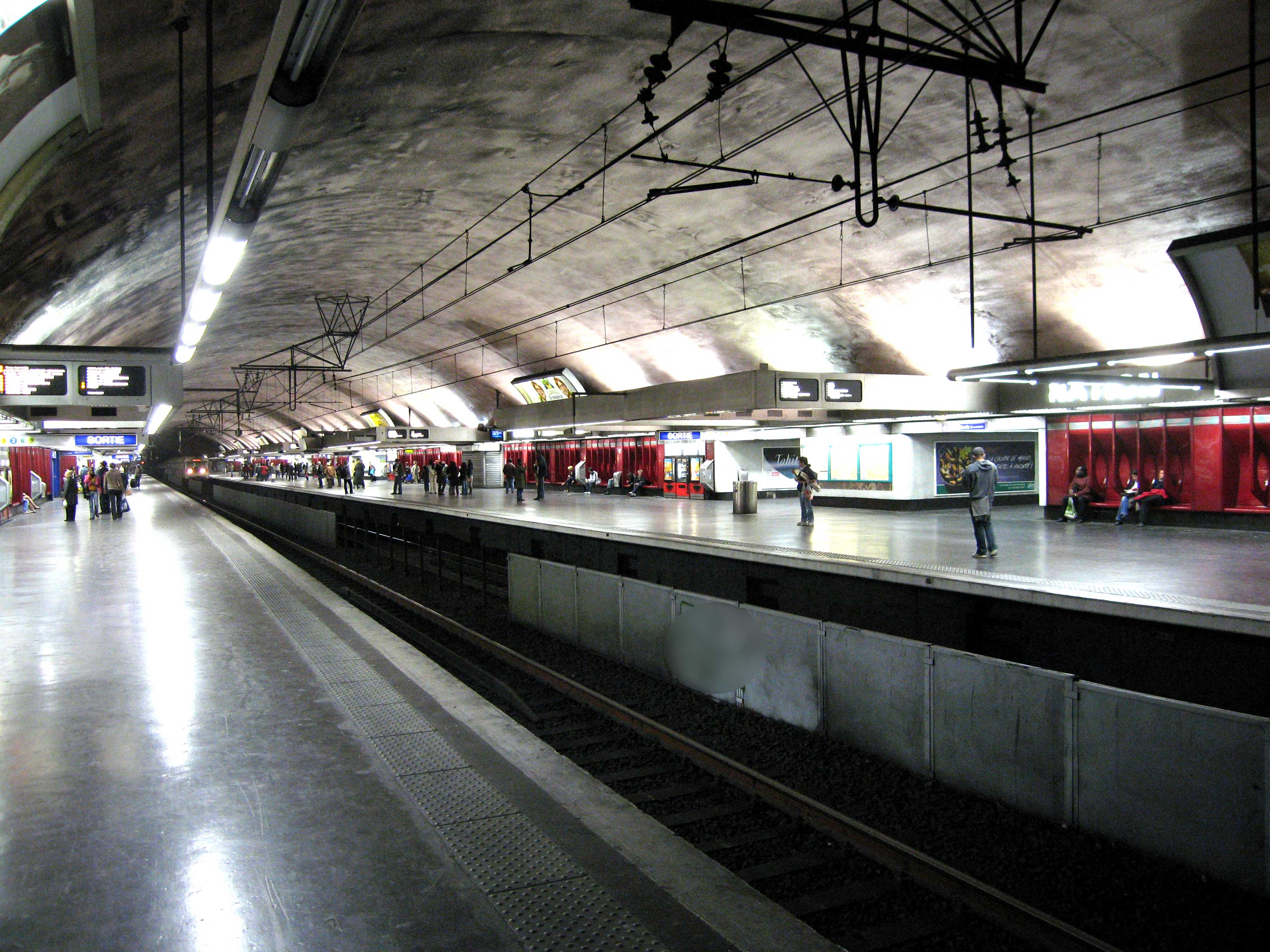 RER Paris, Station Nation, Paris, France